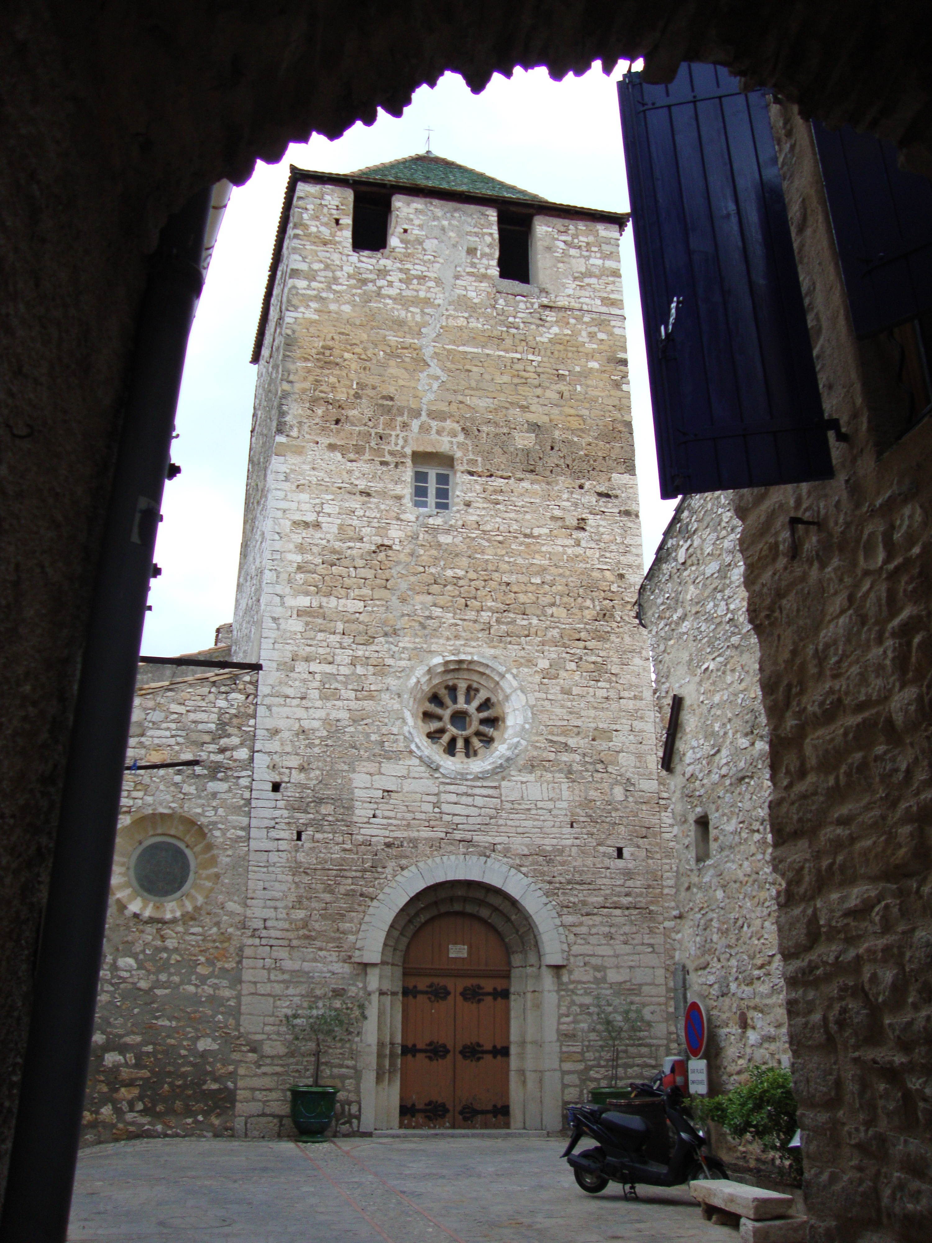 Saint-Jean-de-Fos (Hérault, Fr) church tower